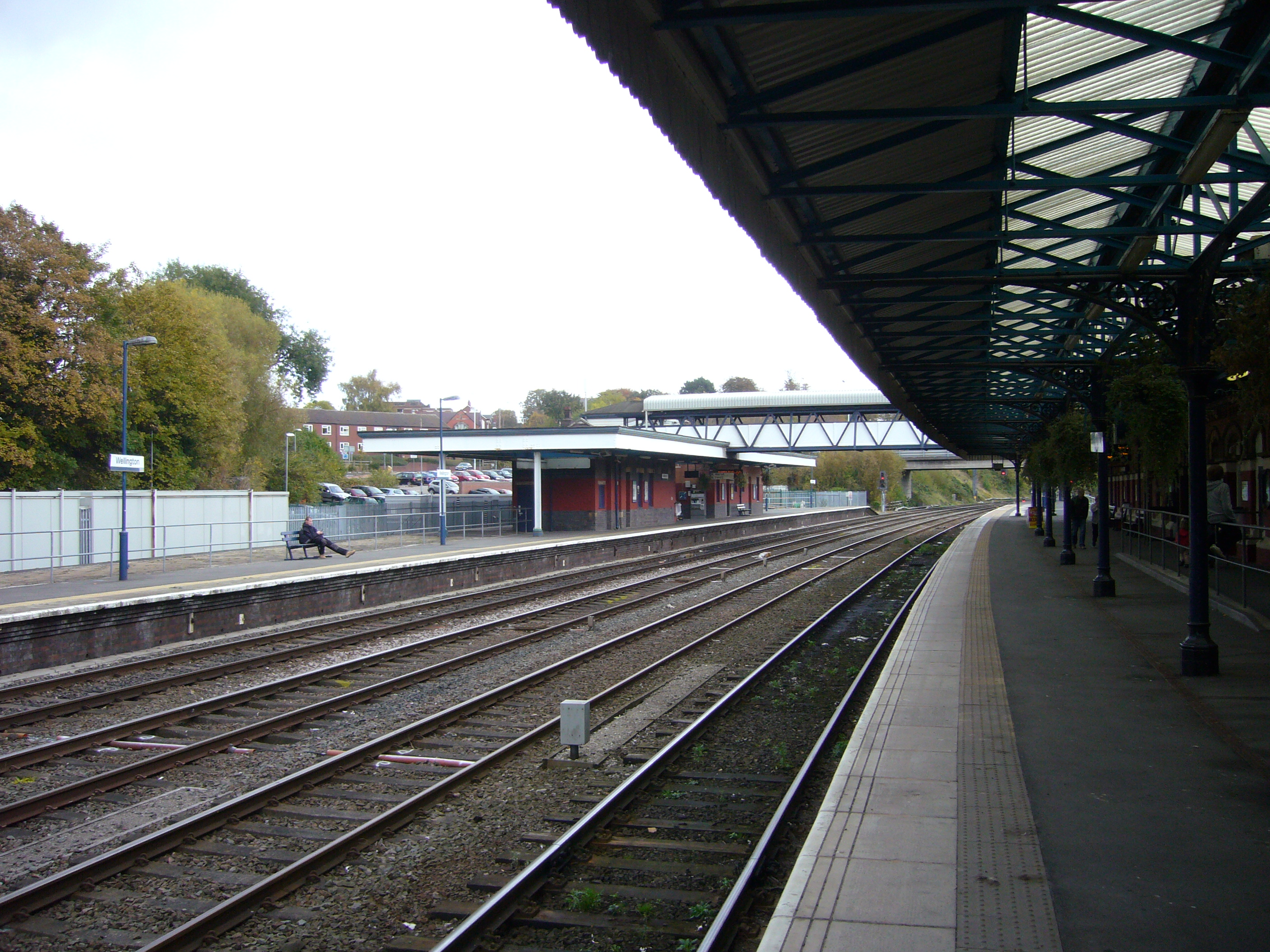 Wellington Railway Station (in Wellington) taken on the platform.